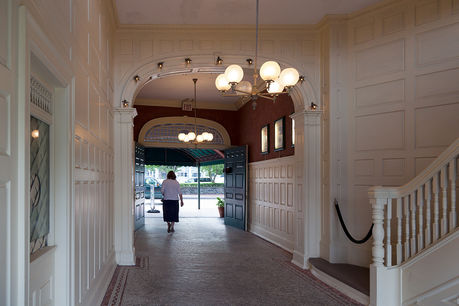 International Tennis Hall of Fame entrance in Newport, Rhode Island